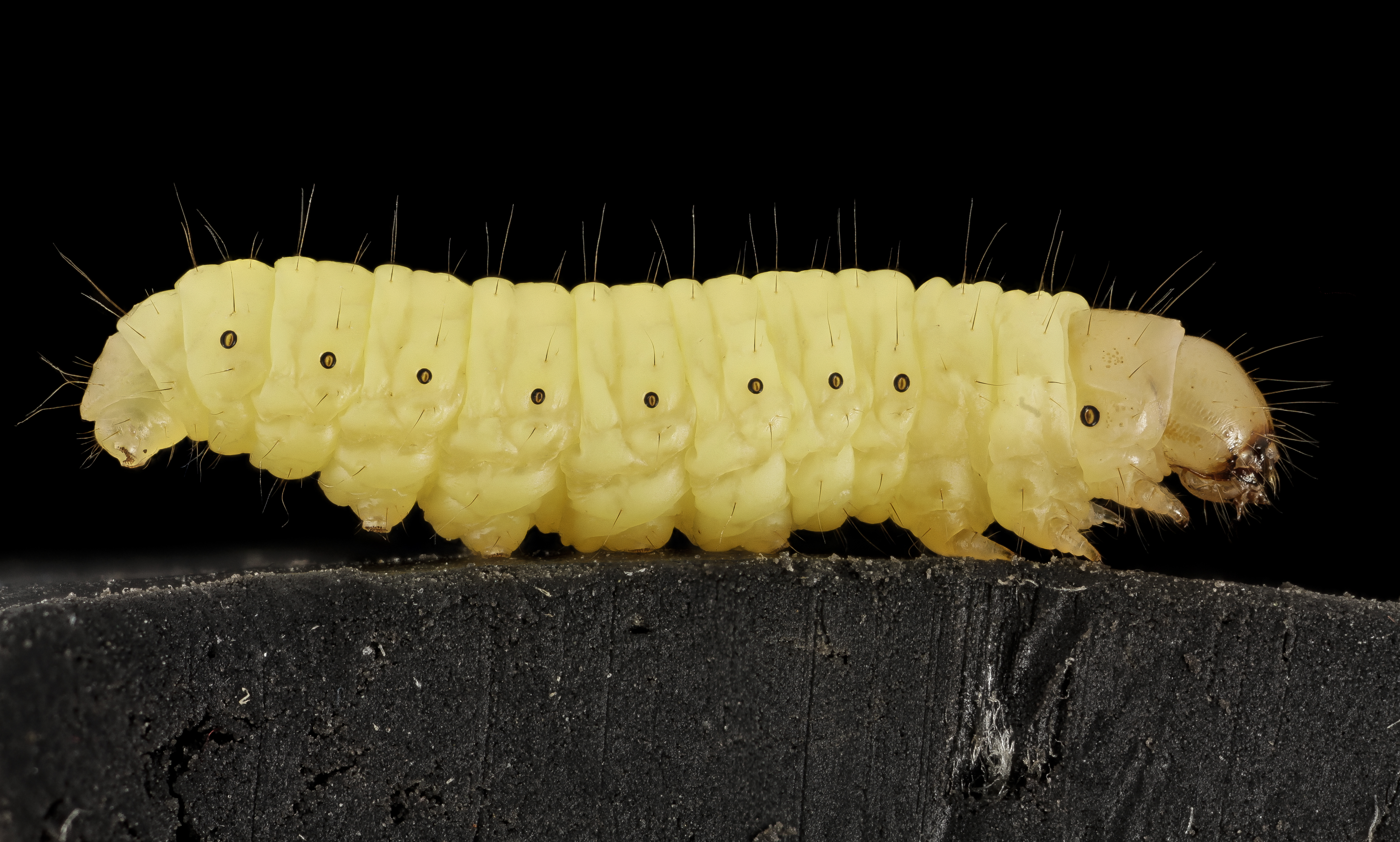 Galleria mellonella - The waxworm. The rather muscular and chiseled form of an introduced pest of bees nests. In this case this bad boy was found in a bumble bee nest that was built in a chickadee nest that the bumble bee queen had kicked out of the nestbox in suburban Maryland. So it goes in nature. Picture by Wayne Boo. Waxworm wrangling by Desiree Narango. 13:37, 19 July 2015 (UTC)13:37, 19 July 2015 (UTC) 0 13:37, 19 July 2015 (UTC)13:37, 19 July 2015 (UTC) All photographs are public domain, feel free to download and use as you wish. Photography Information: Canon Mark II 5D, Zerene Stacker, Stackshot Sled, 65mm Canon MP-E 1-5X macro lens, Twin Macro Flash in Styrofoam Cooler, F5.0, ISO 100, Shutter Speed 200 Beauty is truth, truth beauty - that is all Ye know on earth and all ye need to know " Ode on a Grecian Urn" John Keats Contact information: Sam Droege 301 497 5840